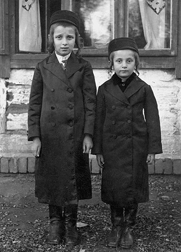 Very old photo - from the 1930's - the photographer is almost certainly not alive anymore. All Jews from this village in Poland were killed in WWII by the German Nazis